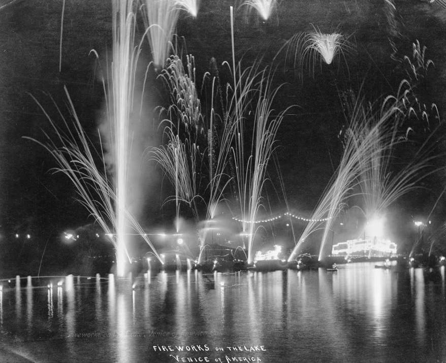 Photograph of a fire works display over the lake at Venice, ca.1915. The lake is still and smooth and shown in the foreground. Above, various splashes of light can be seen cascading down from the sky or erupting from the shore. In the right distance, a small foot bridge appears to have been decorated with lights. Subject Venice Amusement Park